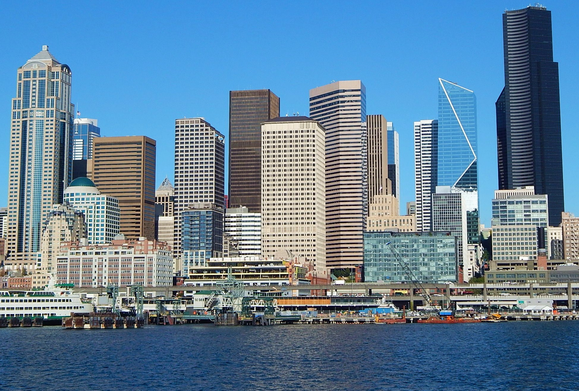 Henry Jackson Federal Building (centered), Seattle, WA. Seen from tour boat.